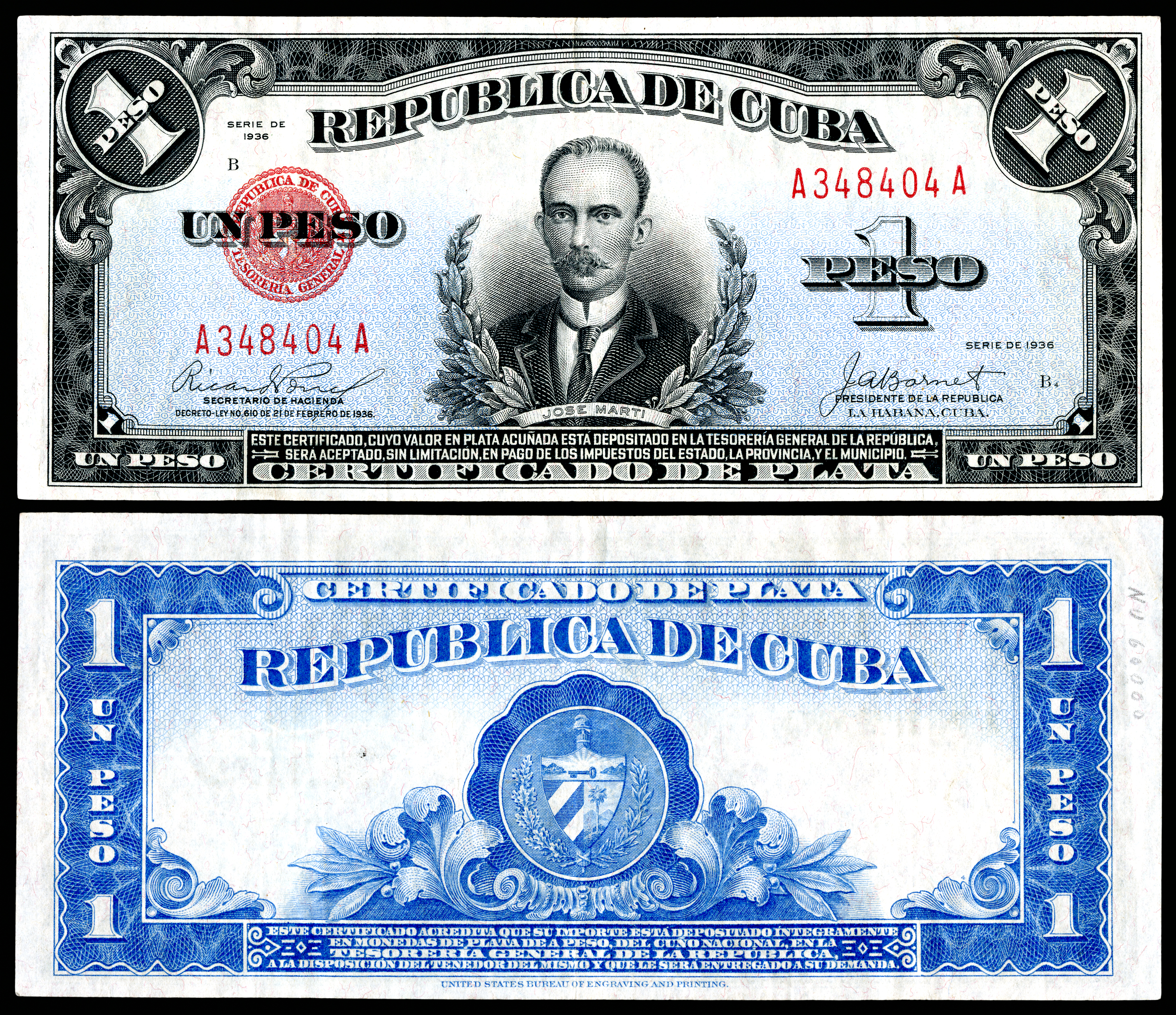 República de Cuba, one silver peso (1936). Engraved signatures of Ricardo Ponce (Secretario de Hacienda) and José Agripino Barnet (Presidente de la República).The United States BEP prepared and issued Cuban silver certificates (Certificados de Plata) in eight series (1934, 1936, 1936A, 1938, 1943, 1945, 1948, and 1949), each series marking a change the authorizing signatures of either the Cuban Secretary of the Treasury (Secretario de Hacienda) or the President (Presidente de la República).